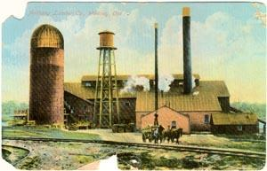 A postcard, originally printed in German circa 1908, showing the St. Anthony mill and lumber yards in Whitney Ontario.